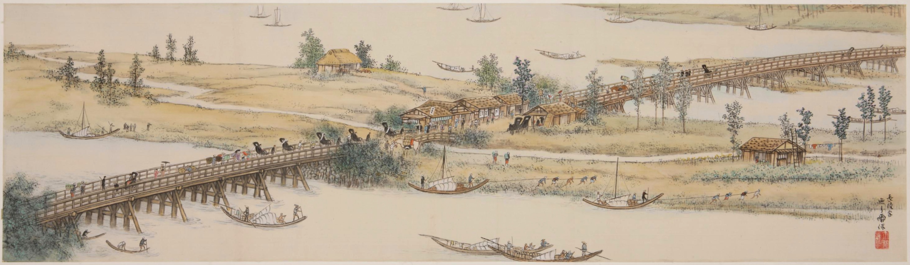 "Chōsei-bashi no zu" (Figure of Chōsei Bridge) by Mizushima Niou. Collection of the Nagaoka City Central Library.